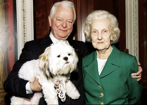 Senator Robert Byrd (D-WV) with wife Erma and their dog, Trouble.